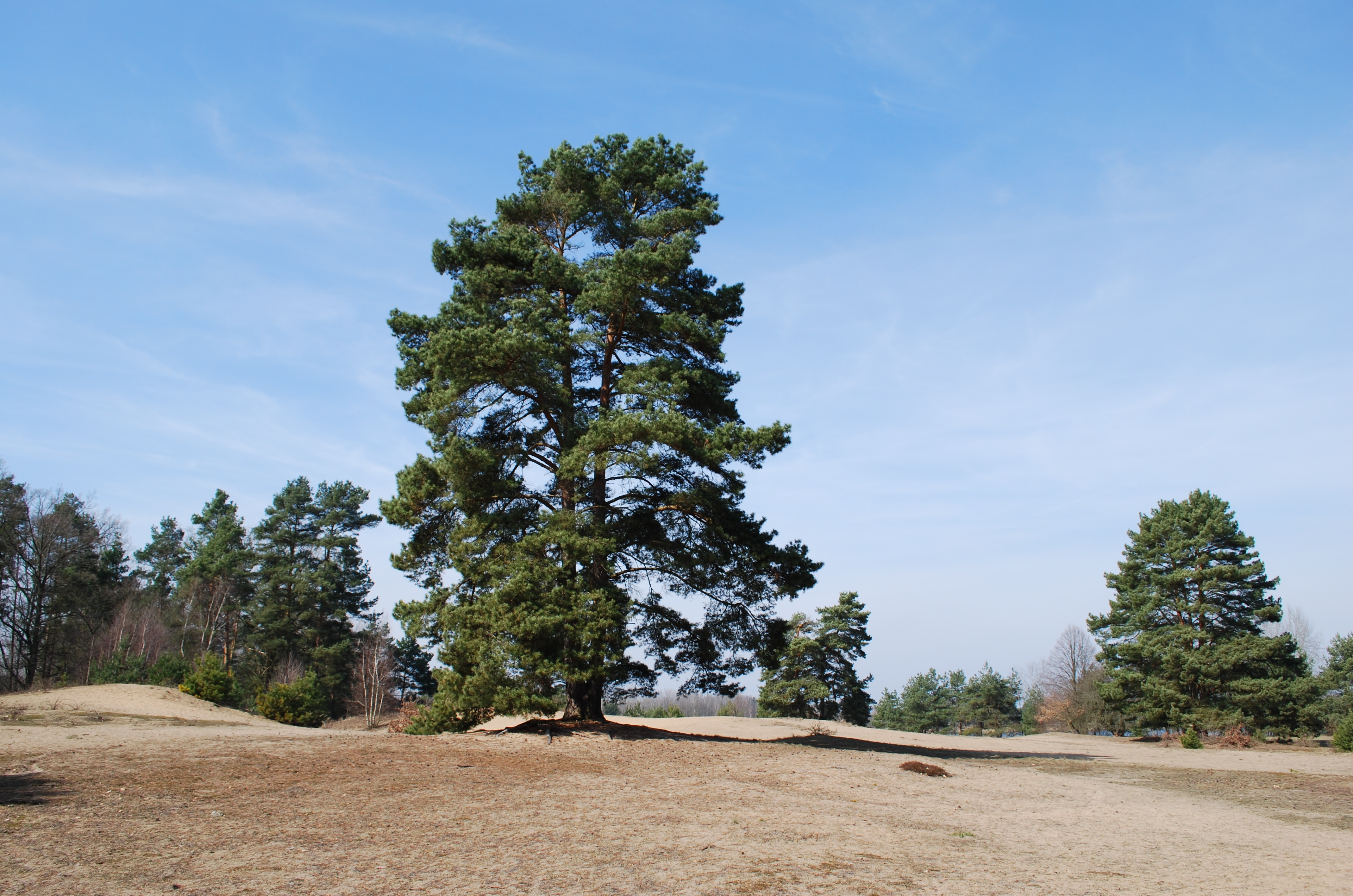 Nature reserve "Písečný přesyp u Vlkova" near Vlkov village, Tábor District, Czech Republic. This photograph was taken within the scope of the 'Czech Municipalities Photographs' grant.